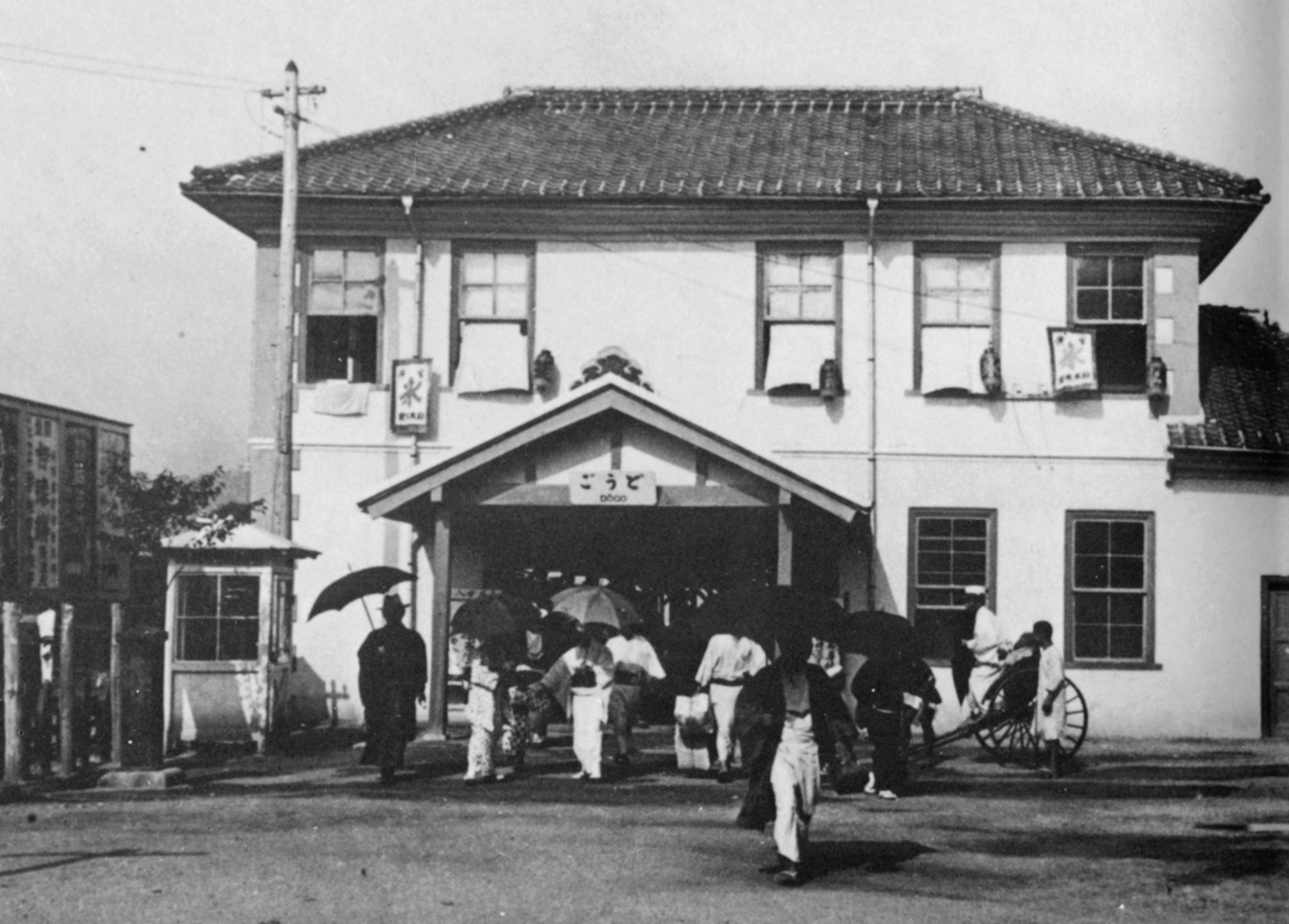 Photograph of first Dogo Onsen station, Matsuyama, Ehime, Japan on August 22, 1895.